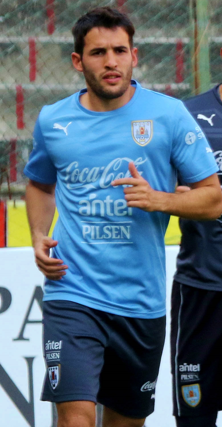 Guayaquil, 09 de nov. del 2015 (Andes).-El primer grupo de jugadores de la selección de Uruguay que llegó a Ecuador realizó una práctica en el estadio Monumental.Foto:César Muñoz/Andes Camilo Mayada